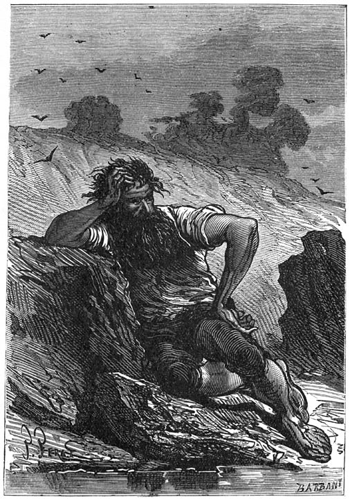 An illustration from Jules Verne's novel "The Mysterious Island" (1873-74) drawn by Jules Férat.